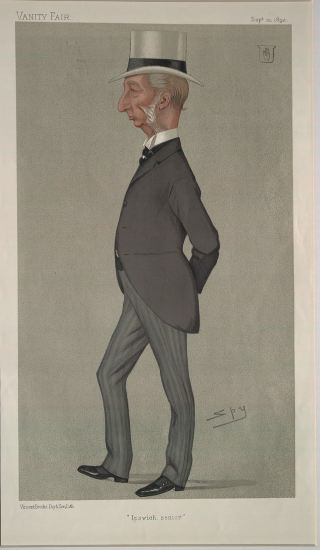 Statesmen No.599: Caricature of Sir C Dalrymple Bt. Caption reads: "Ipswich senior"